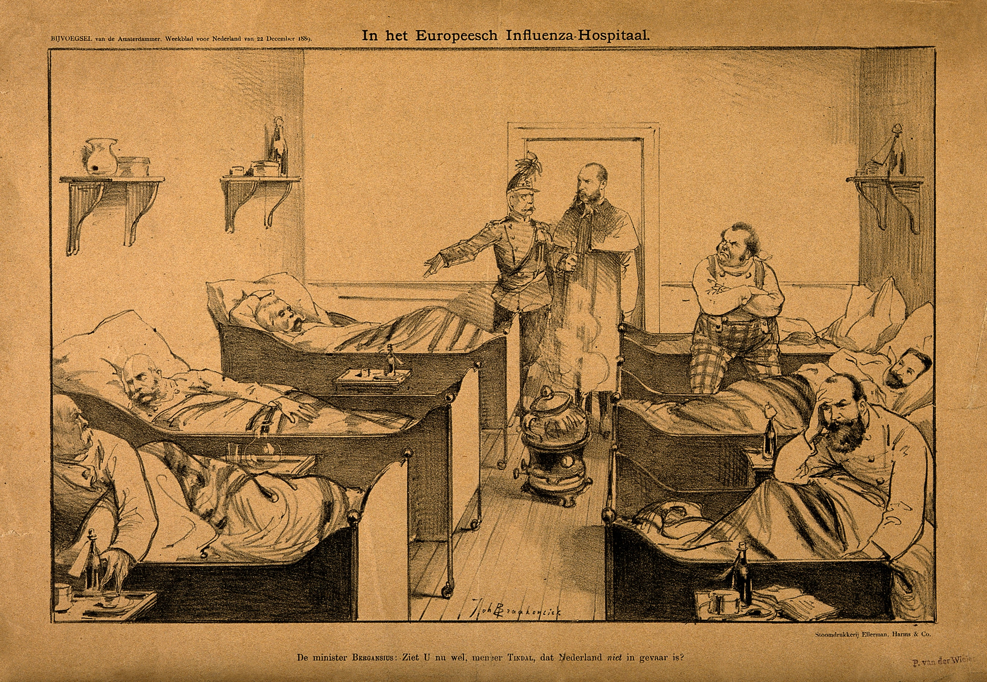 The Dutch minister Bergansius and Hendrik Pieter Tindal visit an influenza hospital populated with representations of the countries of Europe; Bergansius points to the Dutch representative, attempting to persuade the apocalyptic Tindal that all is indeed well. Reproduction of a lithograph by J. Braakensiek, 1889. Iconographic Collections Keywords: INFLUENZA; Johan Braakensiek; j. braakensiek; Influenza, Human; Bergansius; hendrik pieter tindal; Hendrik Pieter Tindal; bergansius